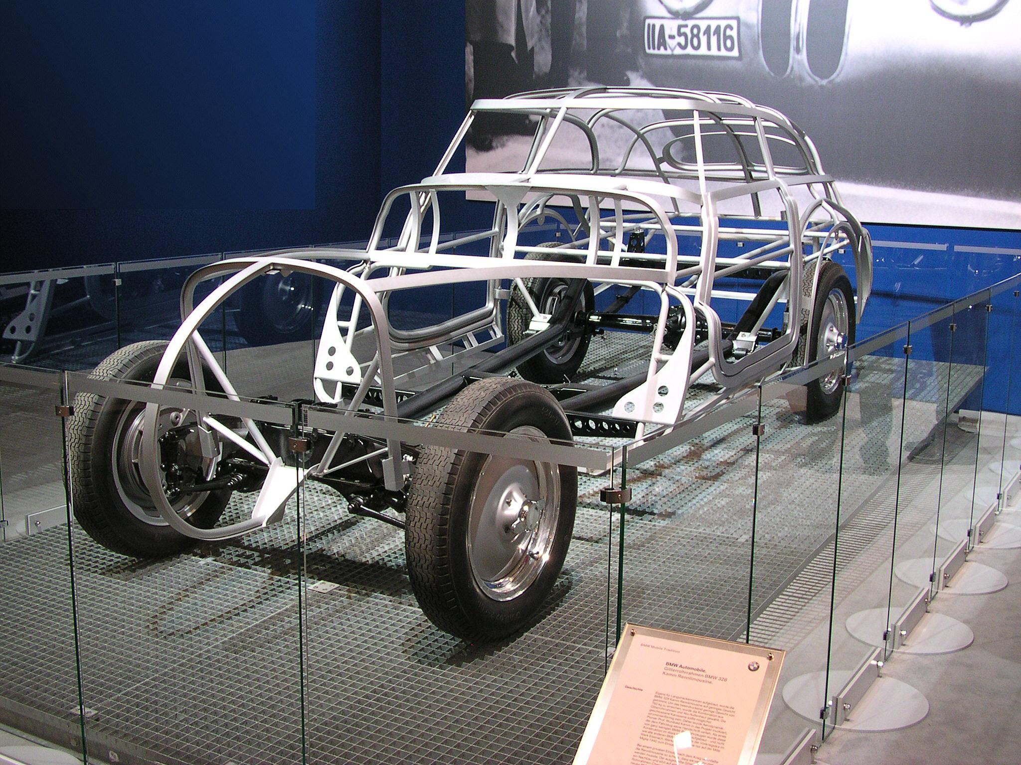 Essen Techno-Classica 2007, BMW 328 replica